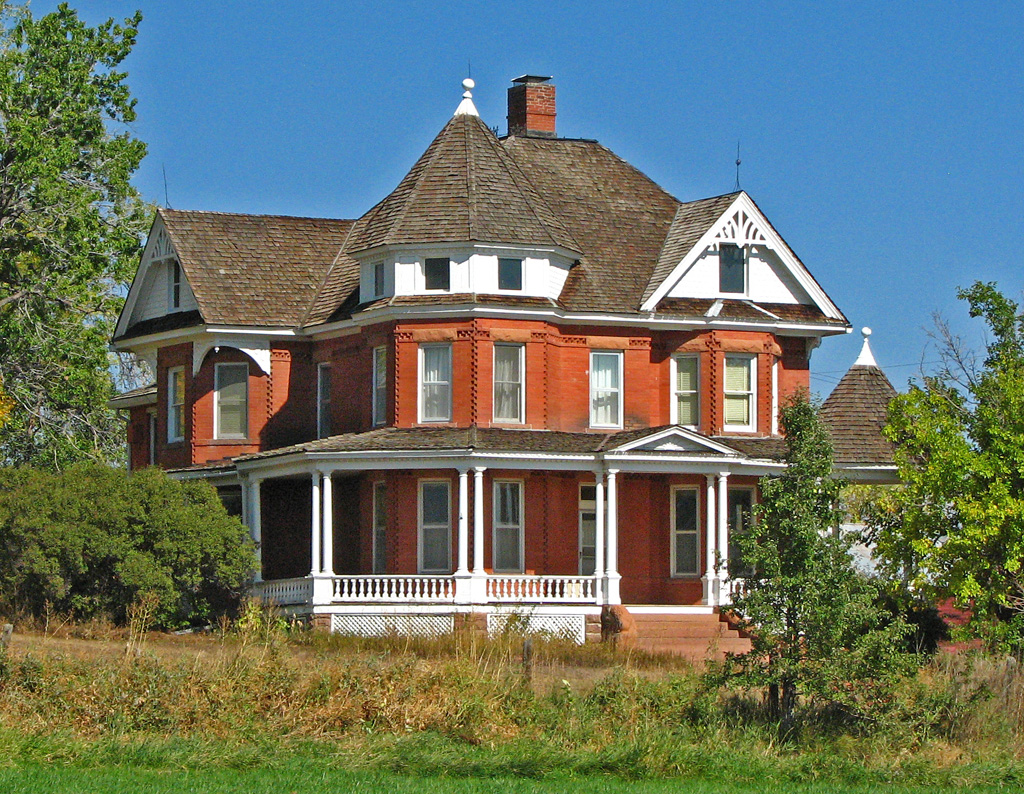 Front of the farmhouse at the Boulder County Poor Farm, located along Sixty-third Street on the northeastern side of Boulder, Colorado, United States. Built in 1902, it is listed on the National Register of Historic Places.